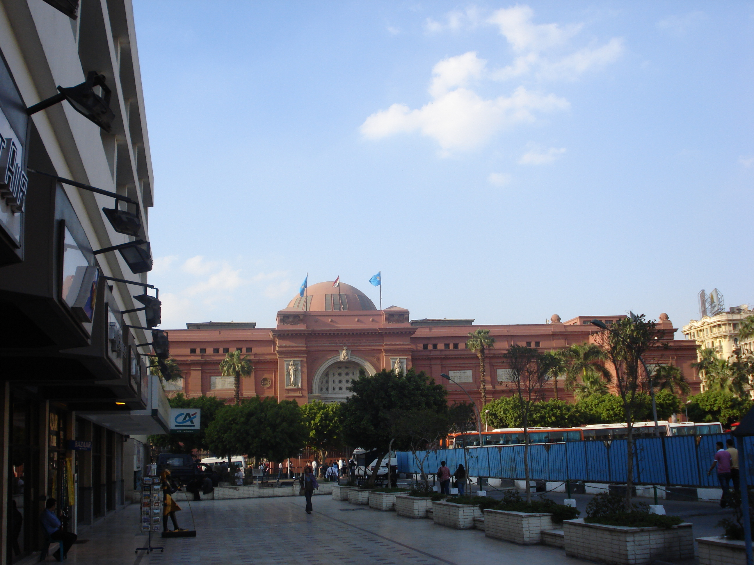 Egyptian Museum